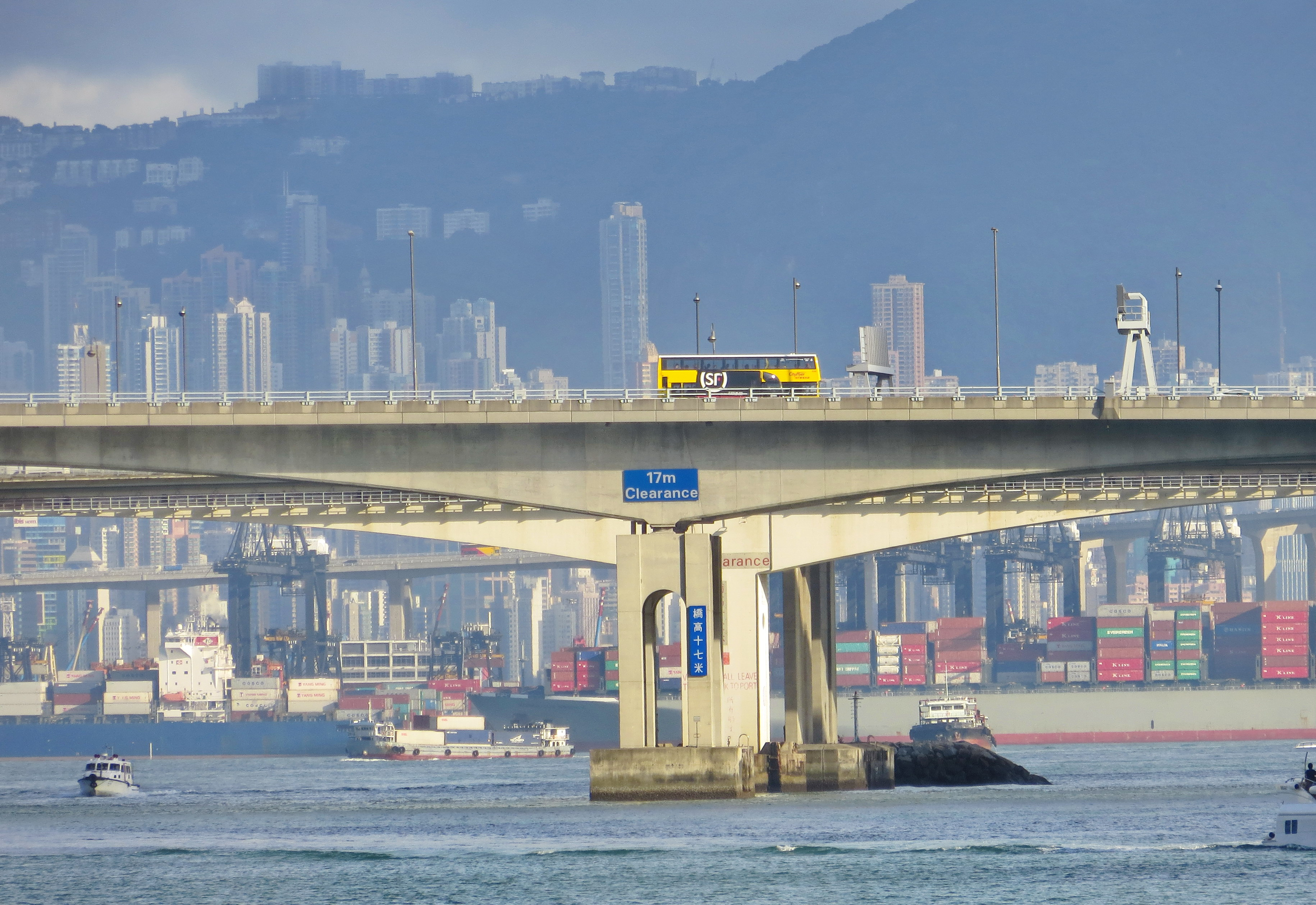 Cheung Tsing Bridge, Hong Kong